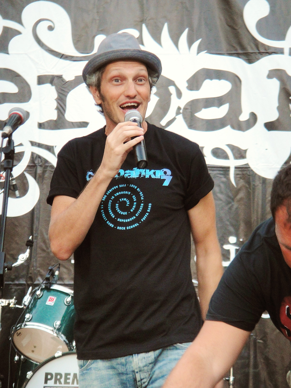 Omar Fantini to the annual Festival ceroanKio of Asti - August 27, 2011